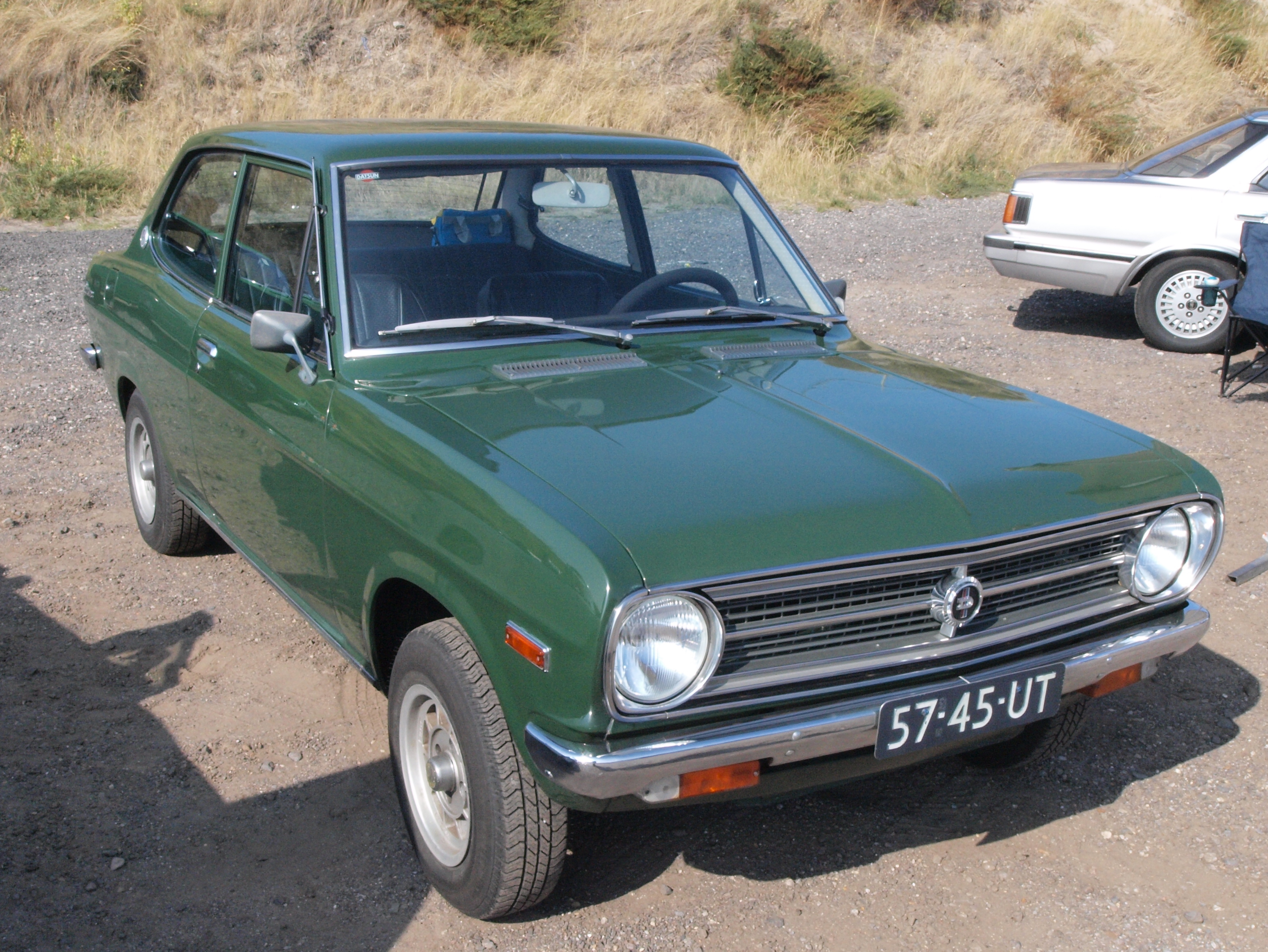 Photographed at the Nationaal Oldtimer Festival Zandvoort 2009, The Netherlands. OLYMPUS DIGITAL CAMERA